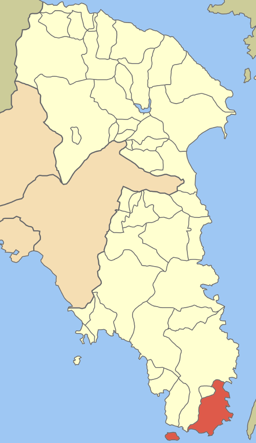 Locator map of Lavrio municipality (Δήμος Λαυρίου) in East Attica Nomarchia (Ανατολικής Αττικής) in Greece.